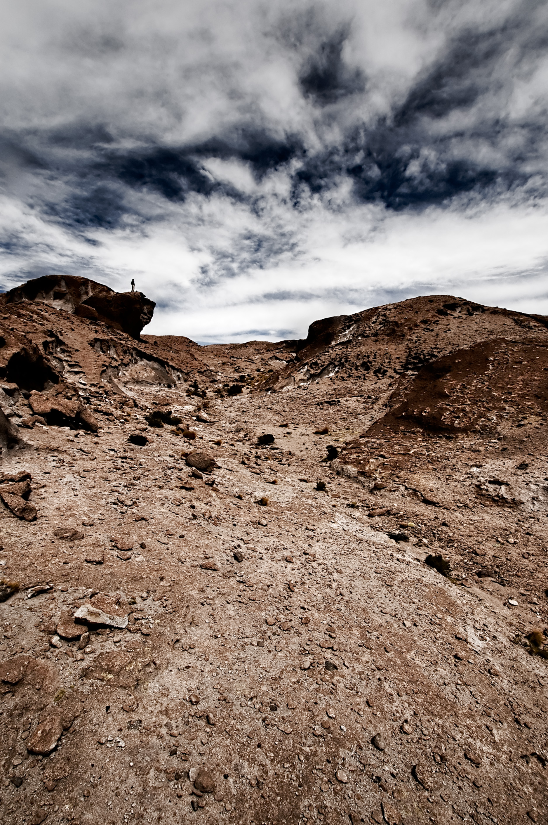 A view of the Sur Lipez desert, just south of the Uyuni Salar, in Bolivia. This is a volcanic area and is very geologically active, hence the 'geometrically challenged' landscape.